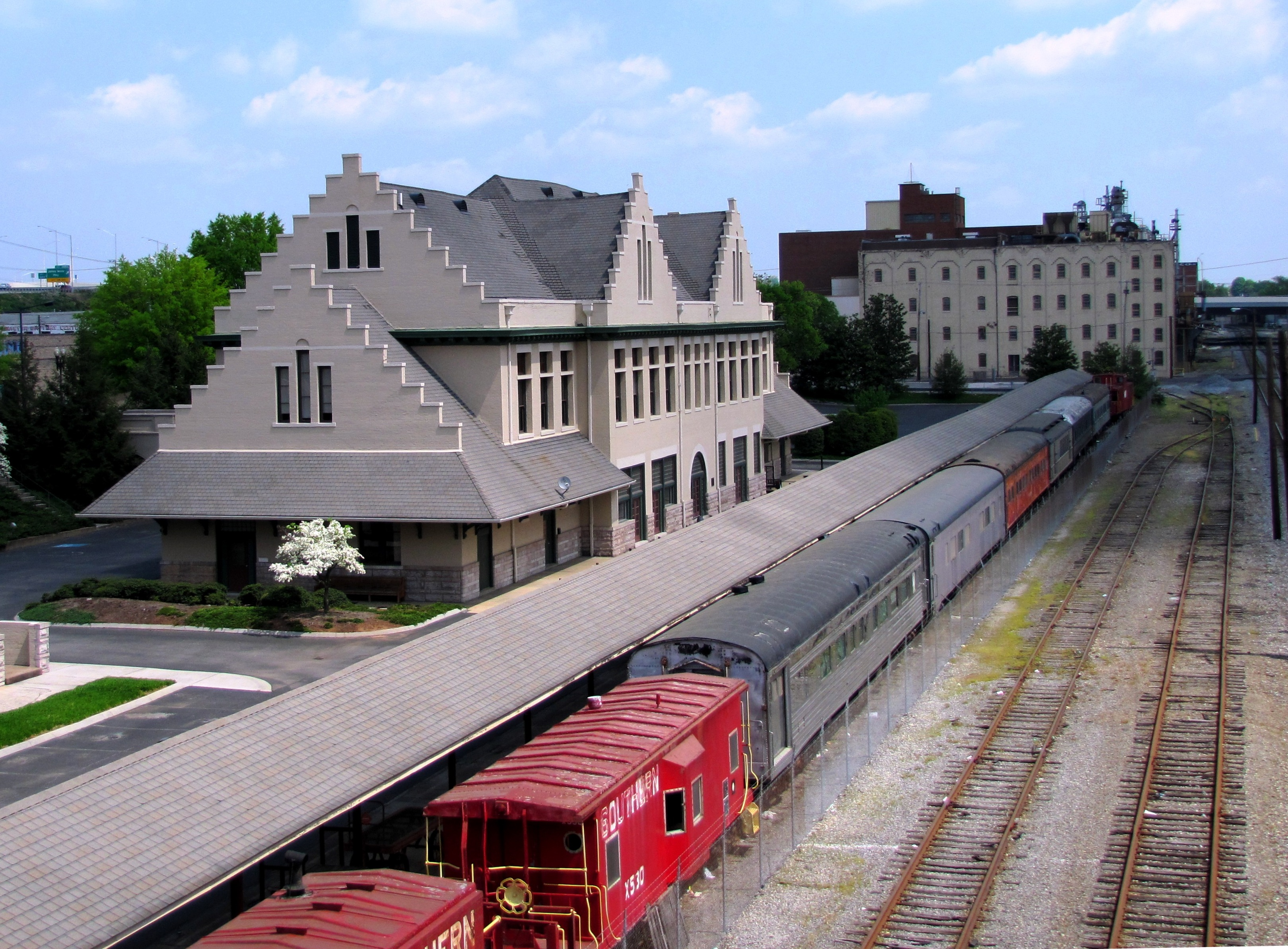 The NRHP-listed Southern Railway Terminal in Knoxville, Tennessee, USA, viewed from the Gay Street Viaduct.